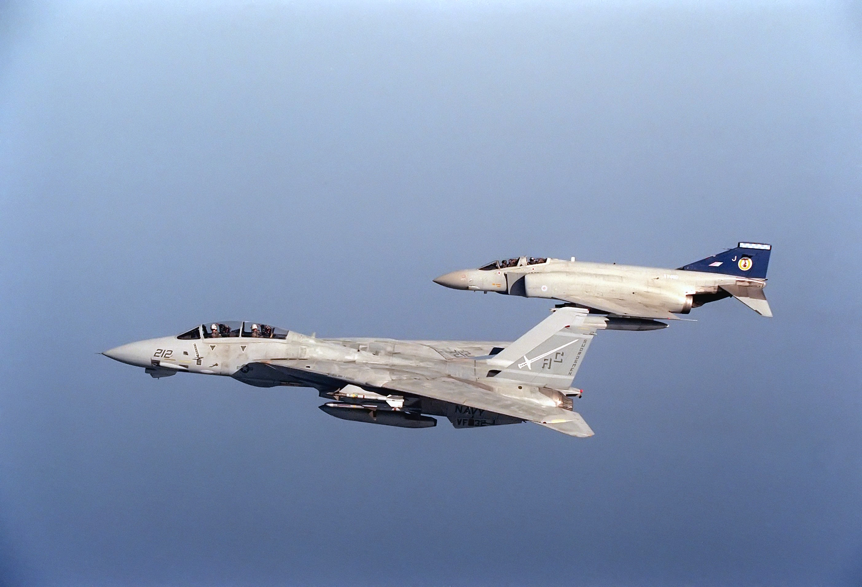 A U.S. Navy Grumman F-14A Tomcat from Fighter Squadron 32 (VF-32) Swordsmen, foreground, flies formation with a Royal Air Force McDonnell Douglas Phantom FGR.2 of 19(F) Squadron prior to practice dogfighting Operation "Desert Shield" in December 1990. VF-32 was assigned to Carrier Air Wing 3 (CVW-3) aboard the the aircraft carrier USS John F. Kennedy (CV-67) for a deployment to the Mediterranean Sea and the Indian Ocean from 15 August 1990 to 28 March 1991. The Phantom was home based at RAF Wildenrath, Germany, but flying out of RAF Akrotiri, Cyprus.